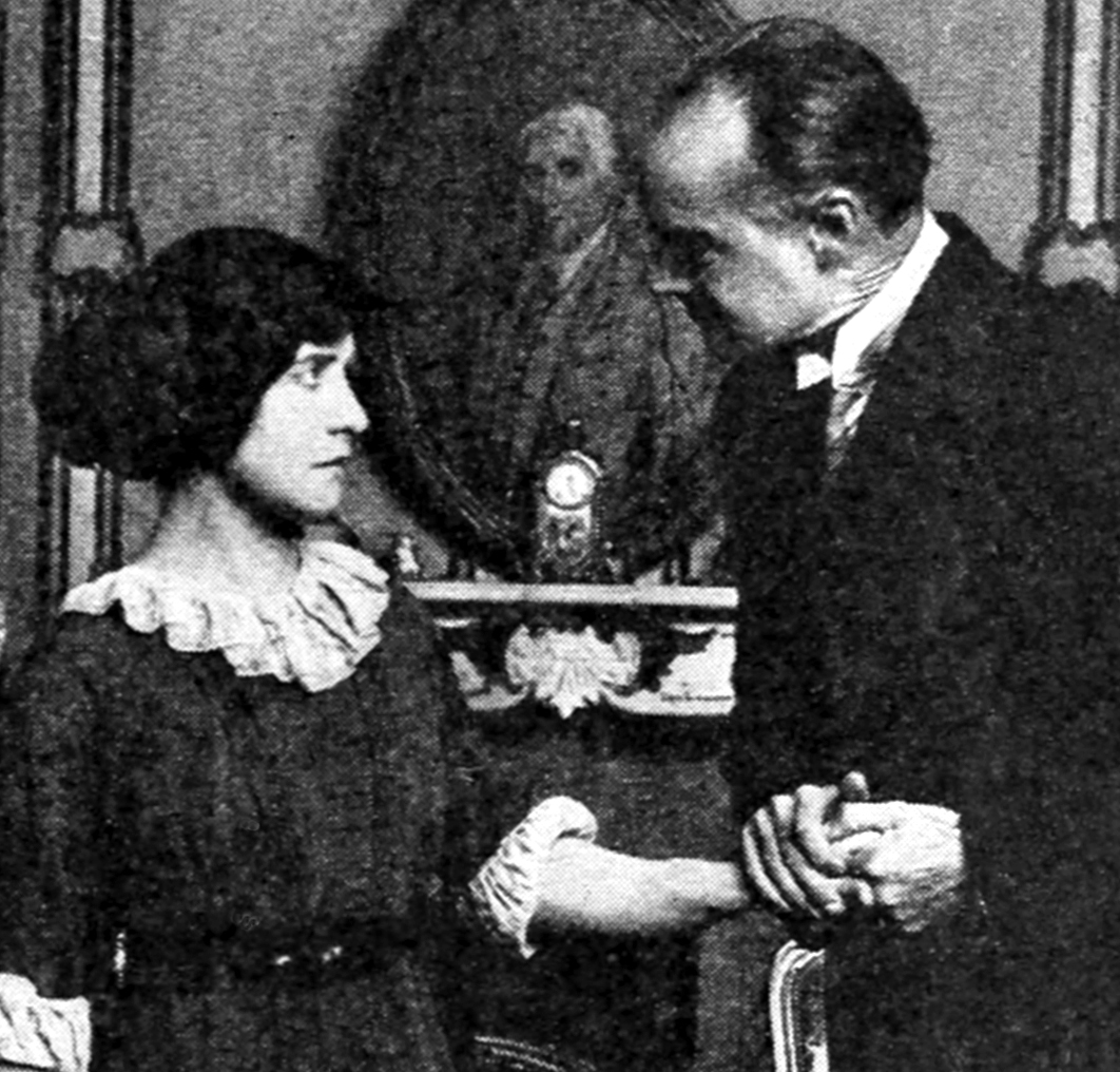 Detail of a still from the 1912 film The Woman in White, featuring Janet Salisbury and Charles CraigCaption: The Engagement